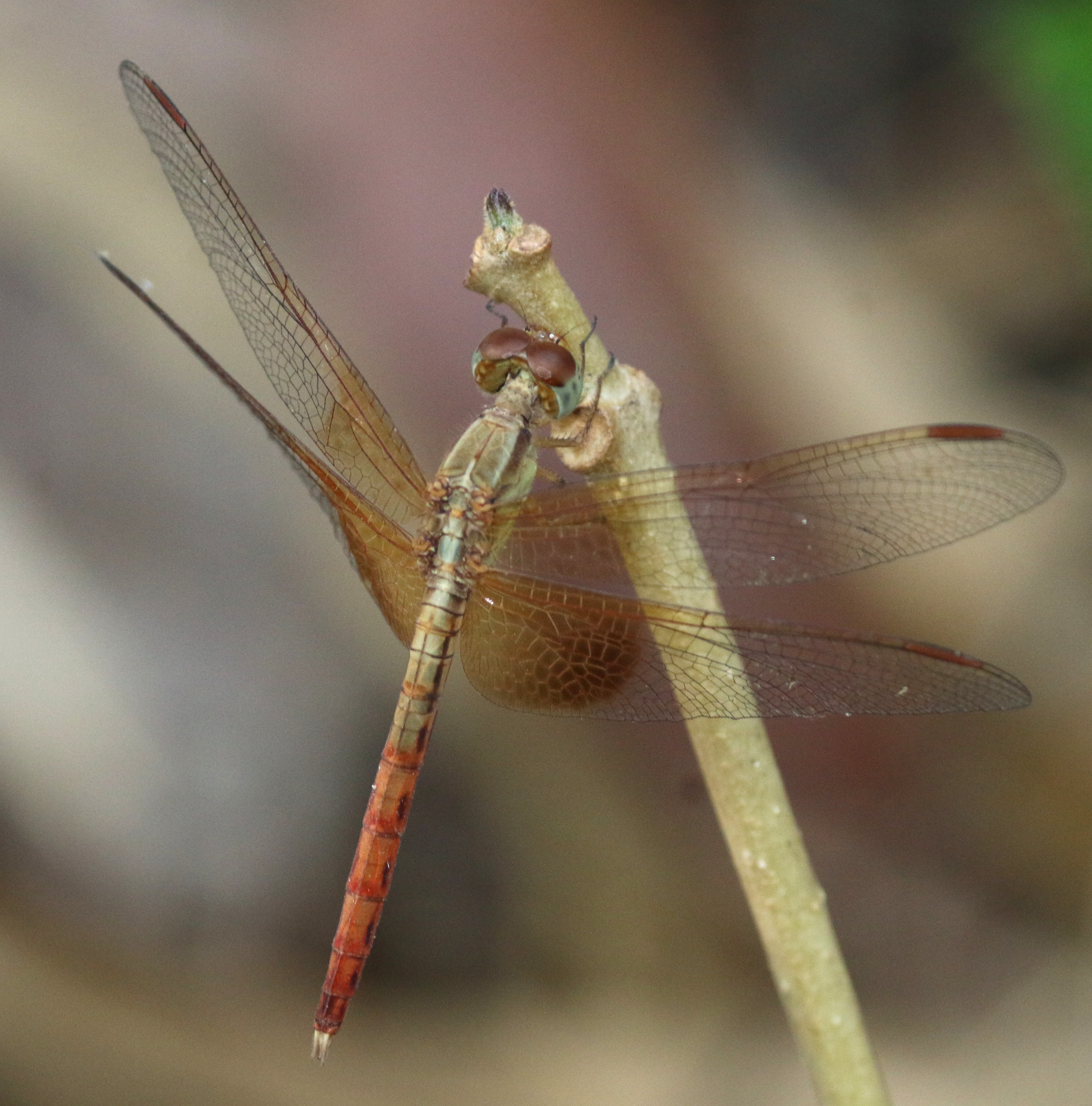 Neurothemis intermedia male